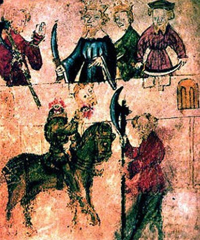 Illustration of Sir Gawain and the Green Knight, from the late-fourteenth-century Pearl Manuscript (Cotton Nero A.x) in the British Library